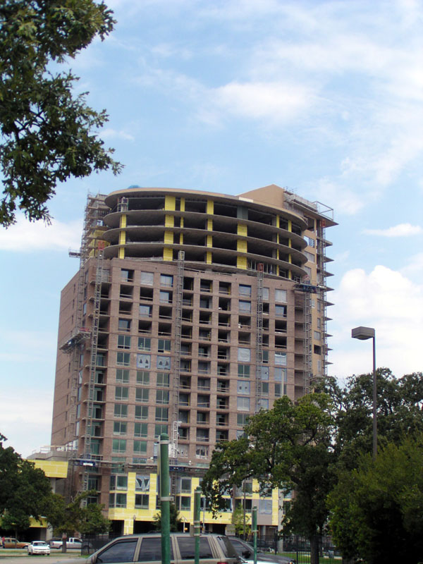 The Mondrian under construction in August 2004, in the Cityplace neighborhood in Oak Lawn, Dallas, Texas, USA.